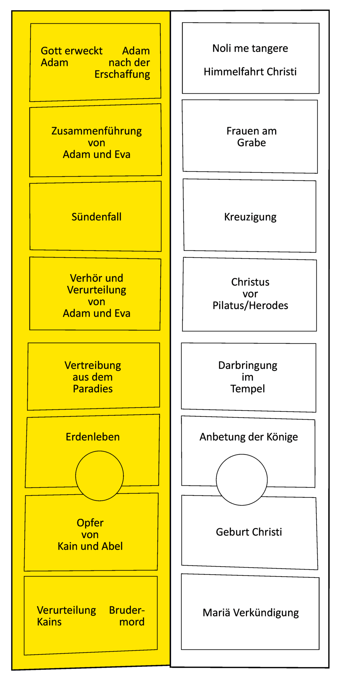 Hildesheim, Cathedral of the Annunciation, bronze doors of Bishop Bernward. Iconographic program.